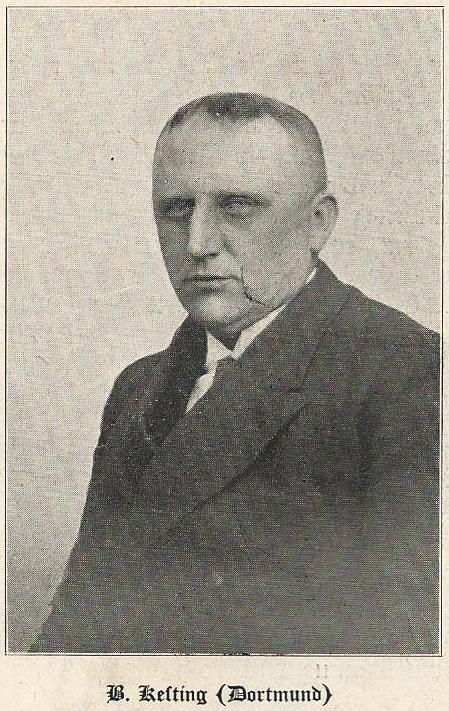 1928 German 3-cushion Championship-Winner B. Kesting